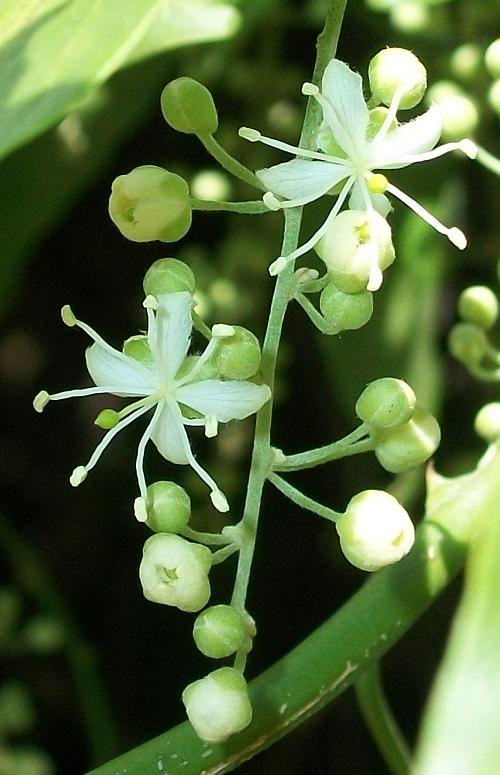 Flowers of Capparis fascicularis var. zeyheri from Amanzimtoti, KwaZulu-Natal, South Africa.